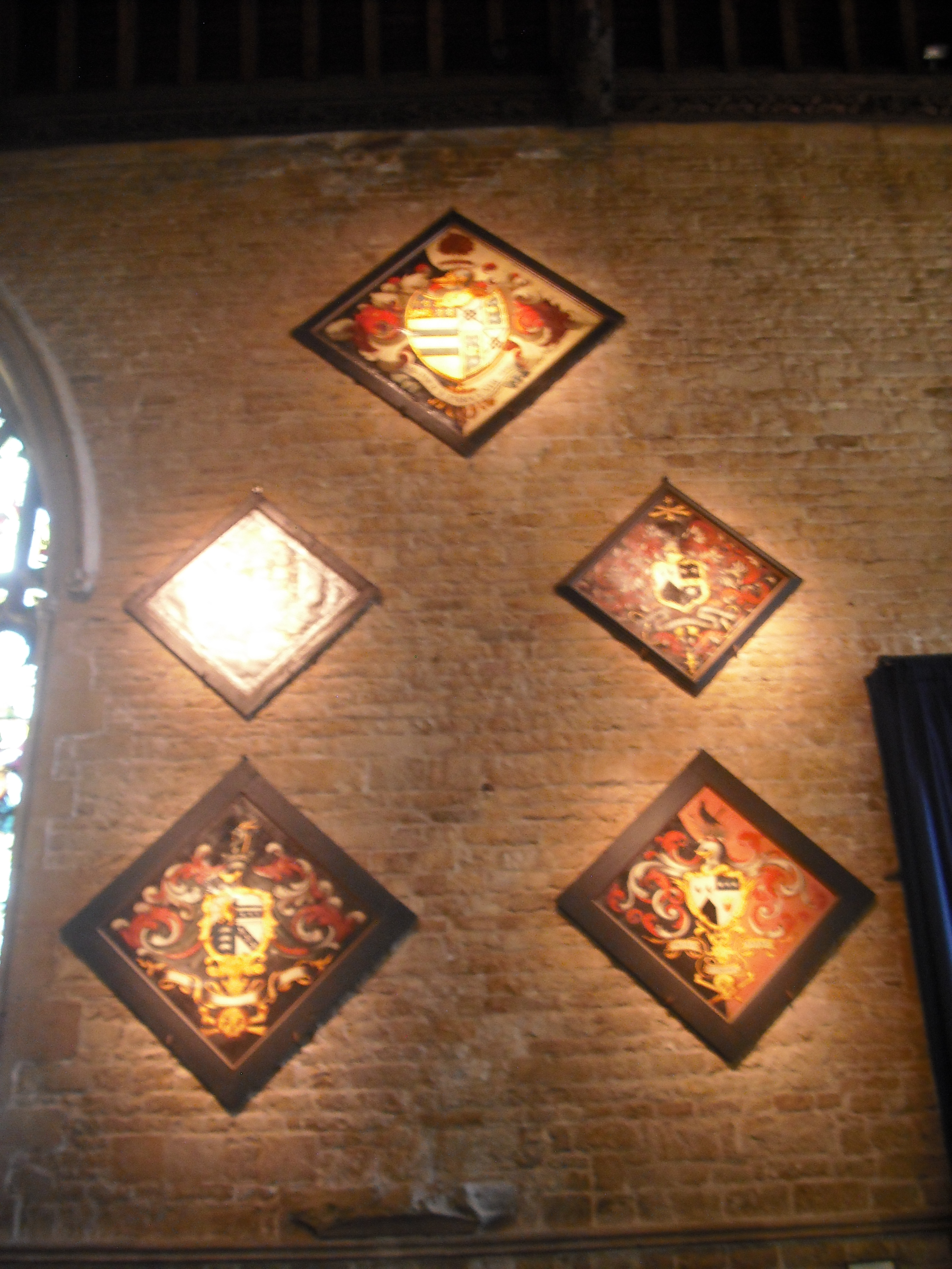 St Wulfram's, Grantham - hatchments